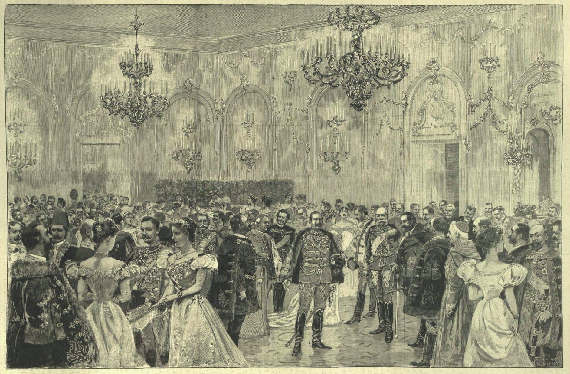 Wilhelm II of Germany in Budapest, Hungary